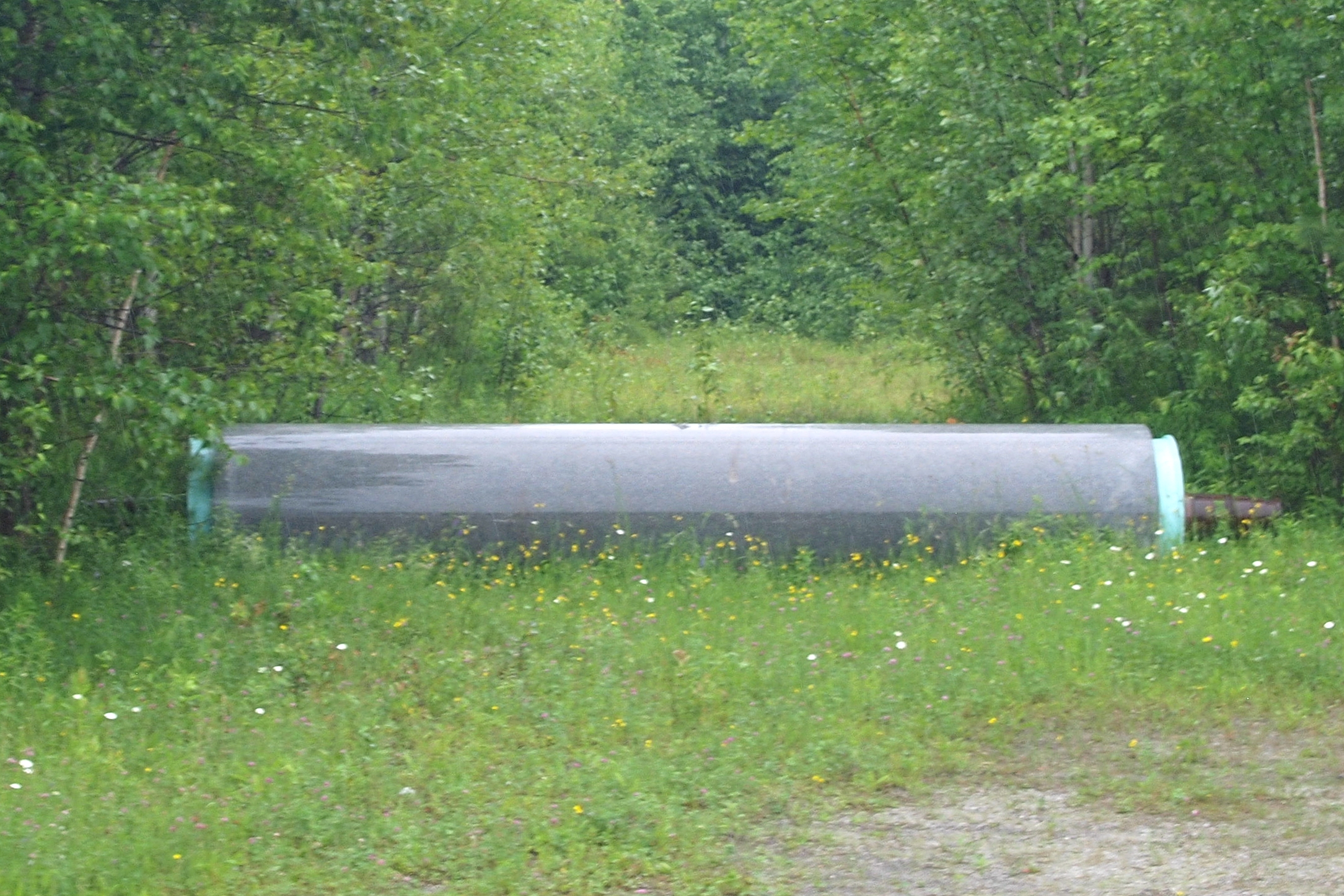 A granite press roll at Rock of Ages in Graniteville near Barre, Vermont, manufactured for paper making machine.